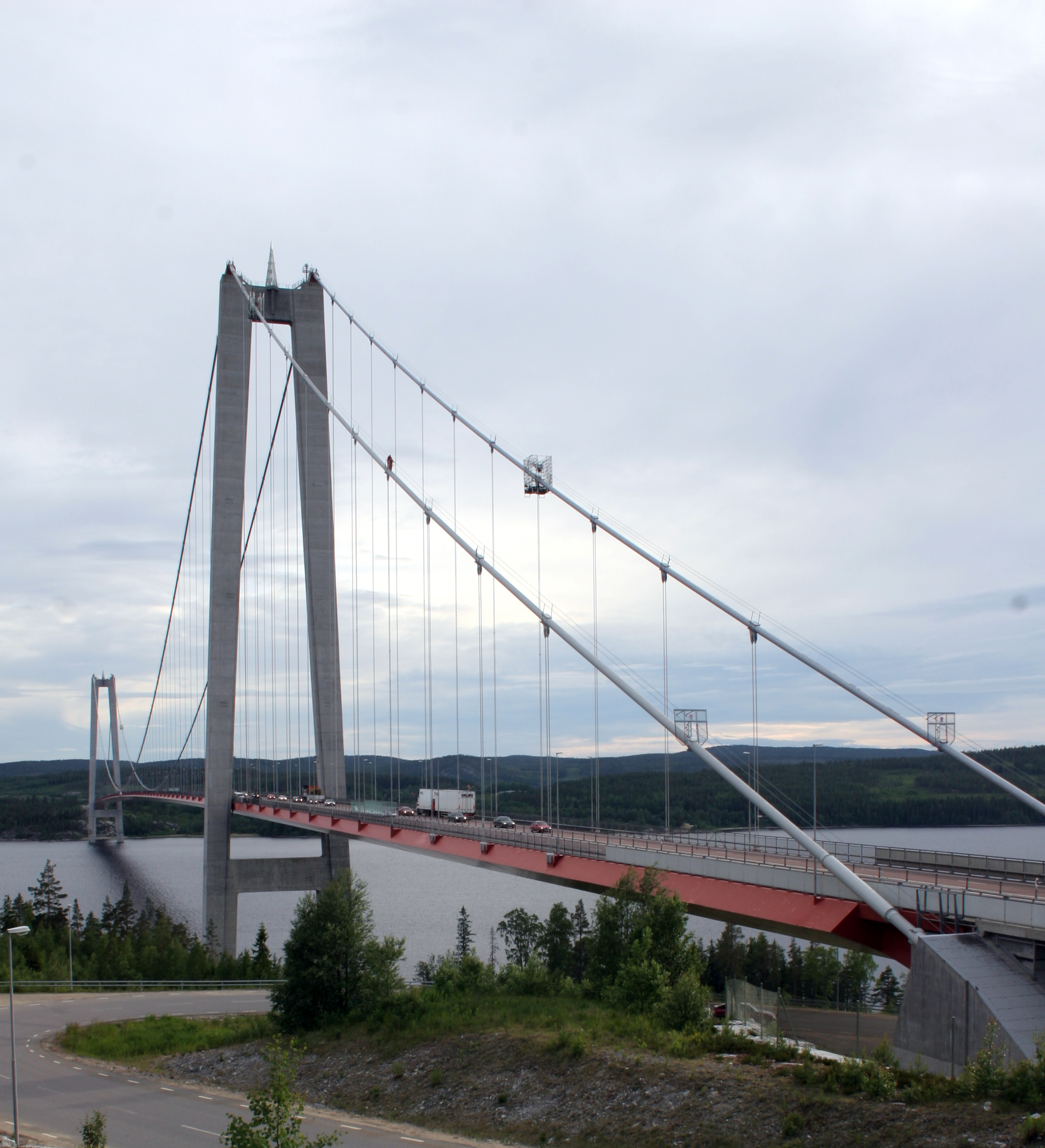 Höga Kustenbron seen from north. Bridge over Ångemanälven near Kramfors. The bridge is Sweden's second tallest building (186 m).